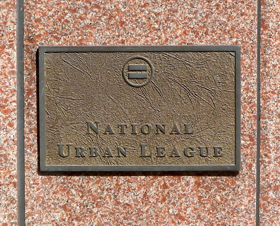 Looking northeast at plaque of File:National Urban League 120 Wall jeh.JPG.